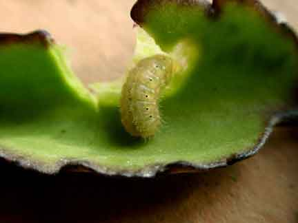 This photograph shows a caterpillar of Red Pierrot Talicada nyseus on a leaf of its larval host-plant Kalanchoe. This image has been shot by Mr Nandan Kalbag and donated for use with regard to Indian butterflies in Wikipedia.See his website at:- This image has been uploaded by Nature Loader with specific permission of Mr Nandan Kalbag.